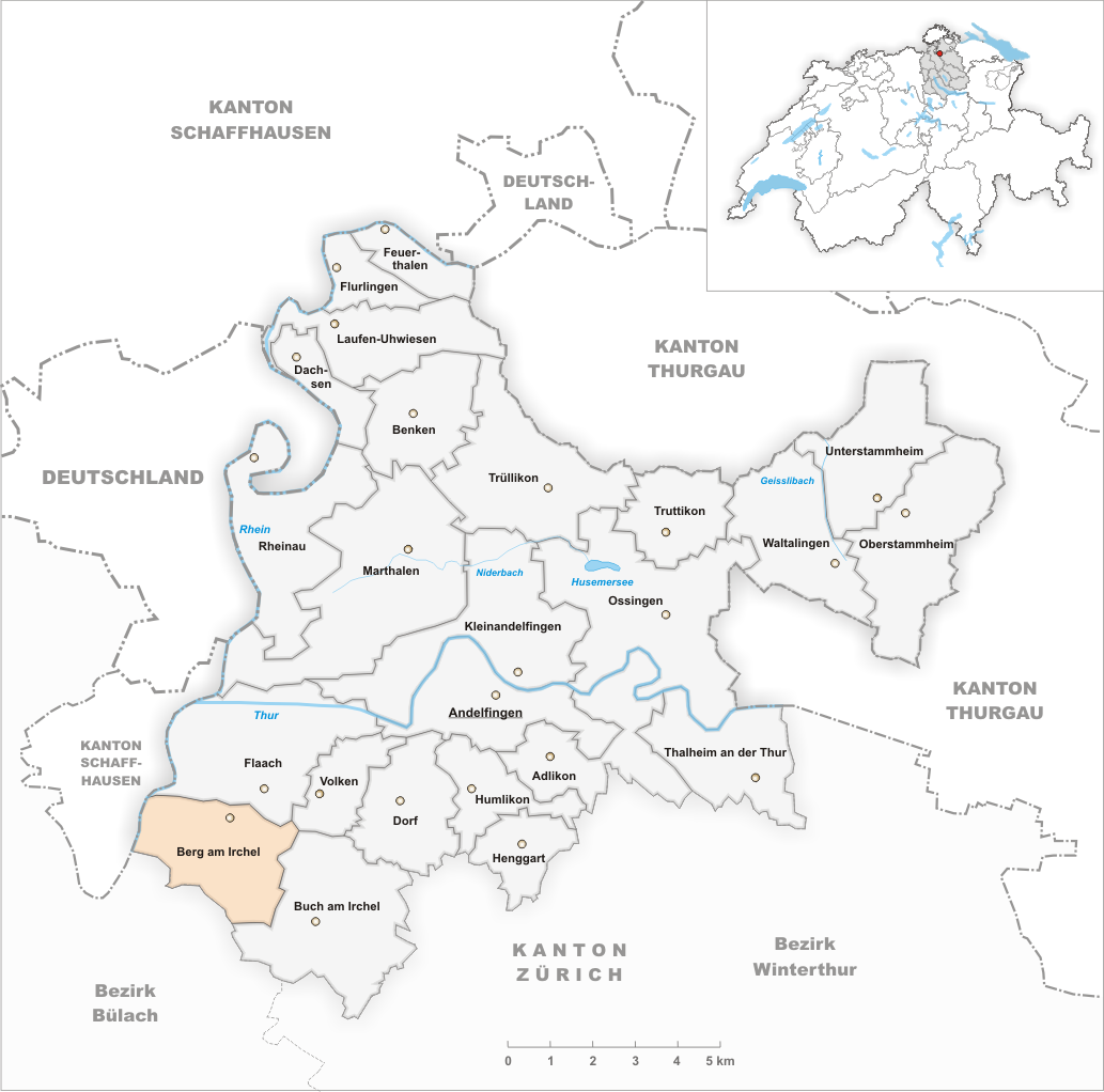 Municipality Berg am Irchel